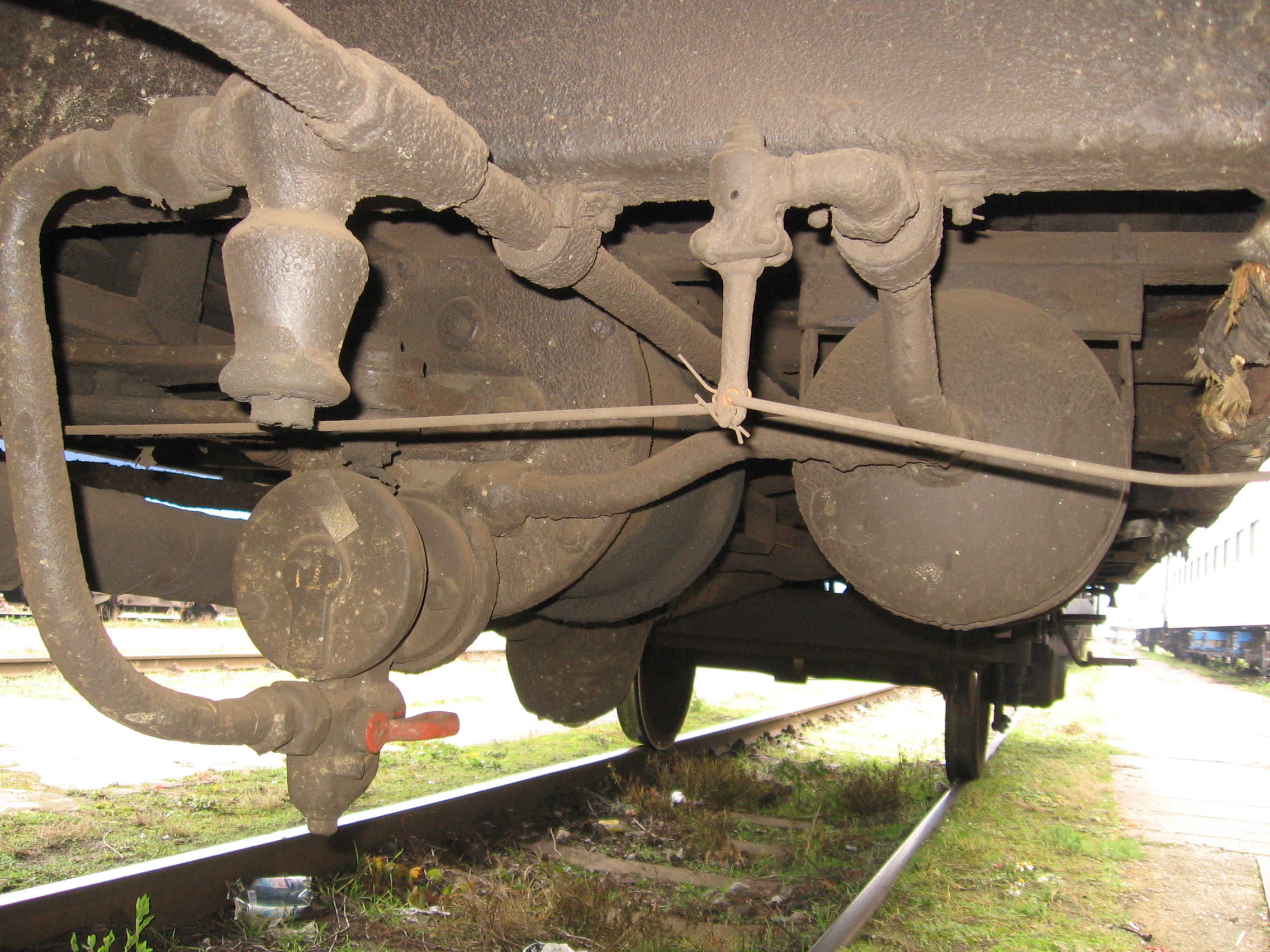 Coach 40 54 89-00 334-4 ČD - air brake Knorr